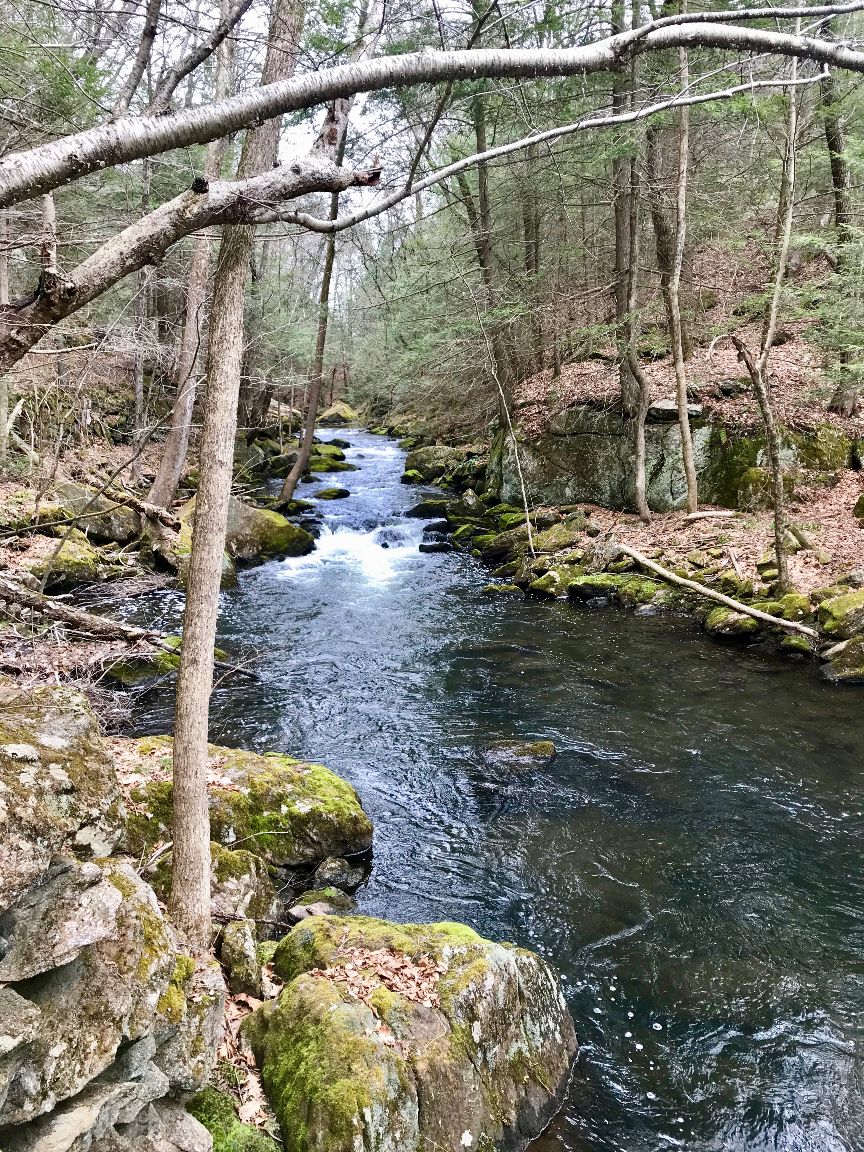 Jericho Blue-Blazed Trail. Hancock Brook on Hancock Brook Trail.